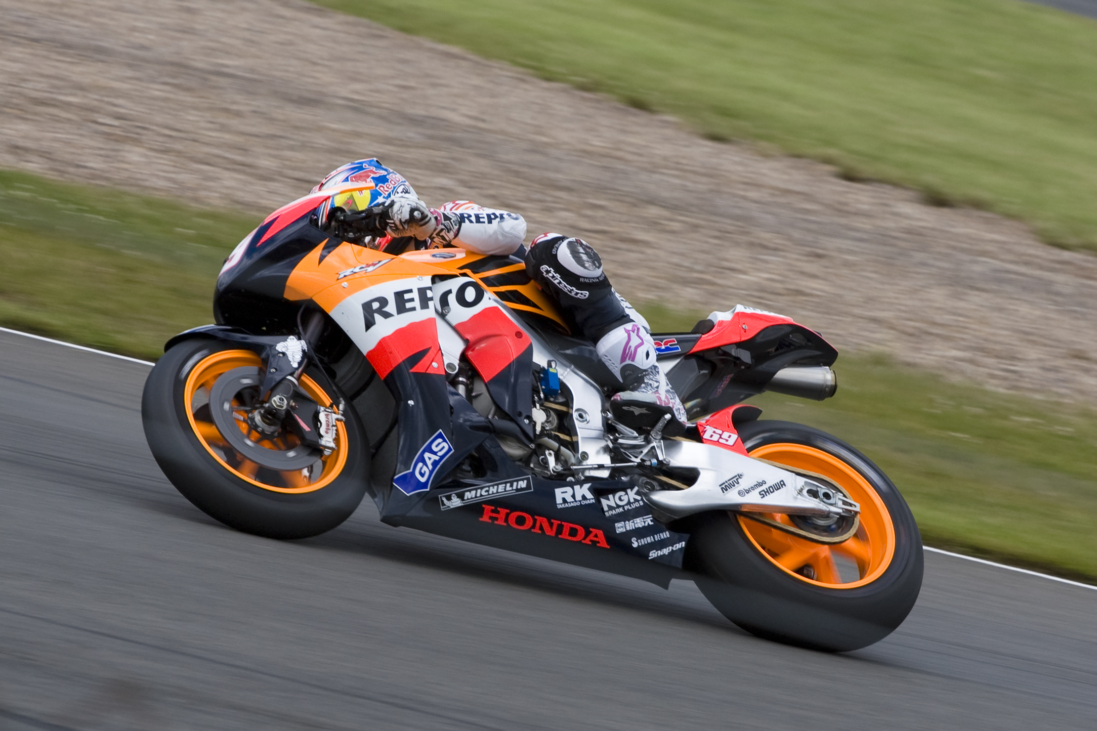 Nicky Hayden, riding his Repsol Honda at the 2008 British Grand Prix.